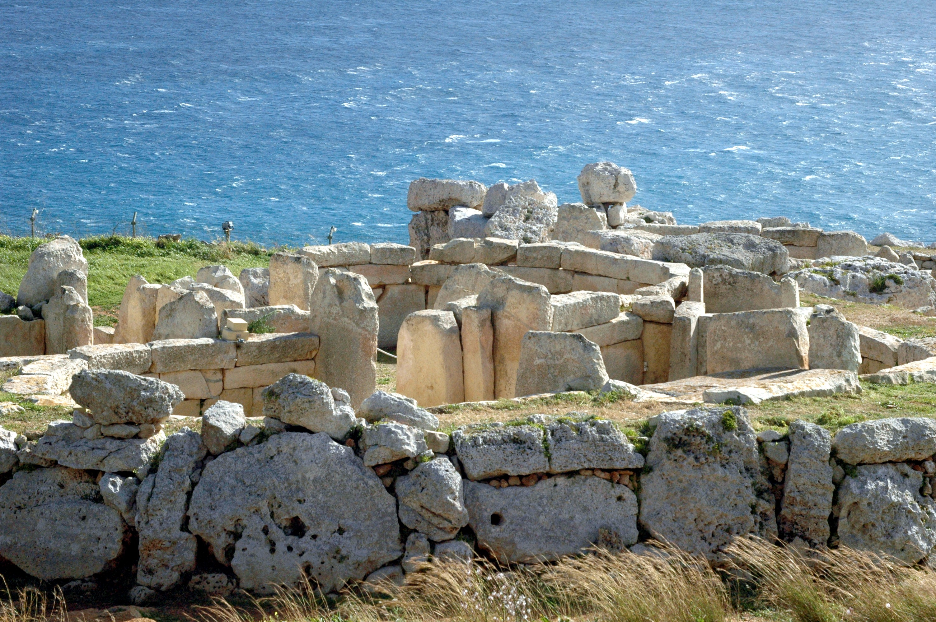 Templi megalitici di Mnajdra